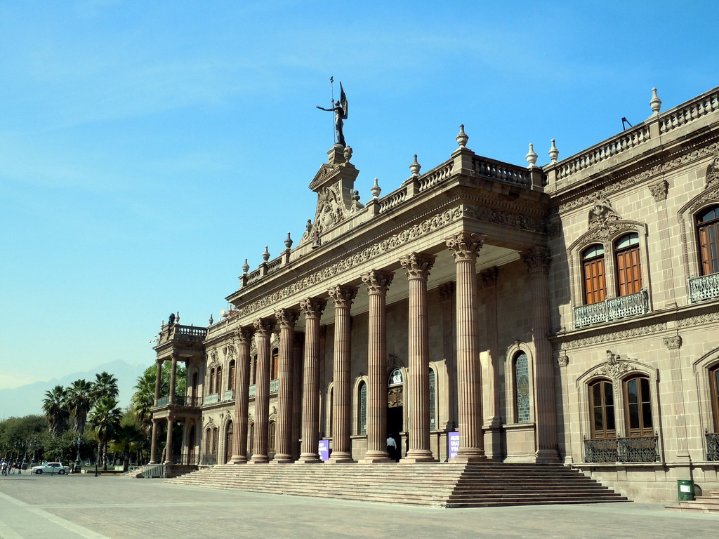 Gobierno NLeon